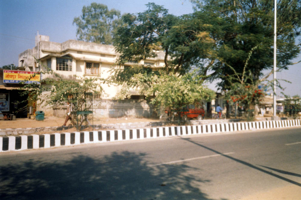 A view of Colony, Ranchi (Jharkhand, India